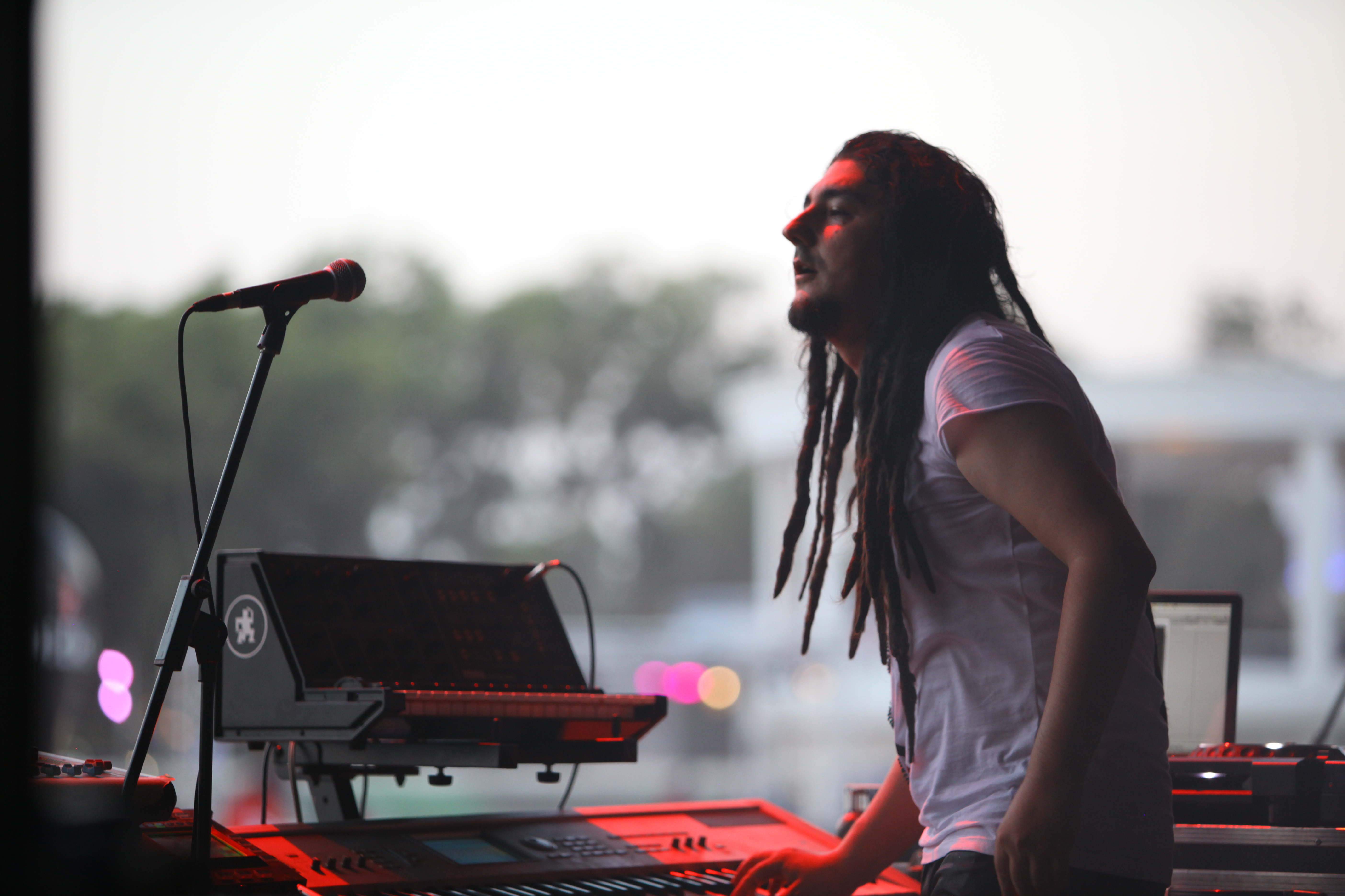 Paul Ilea onstage @ 'Spirit Of Burgas Festival', 2012